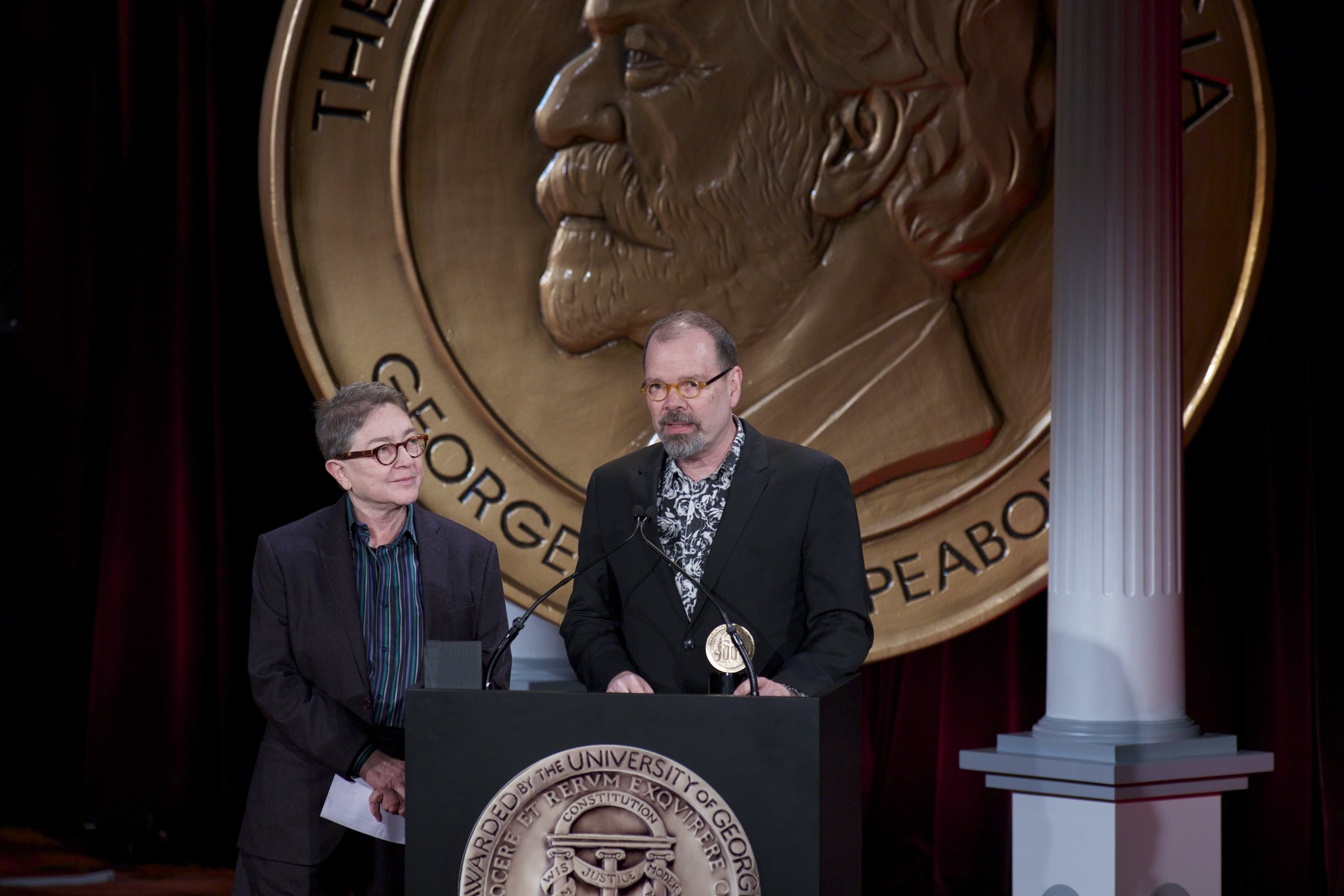 David France and Joy Tomchin accept the Peabody Award for "How to Survive a Plague"